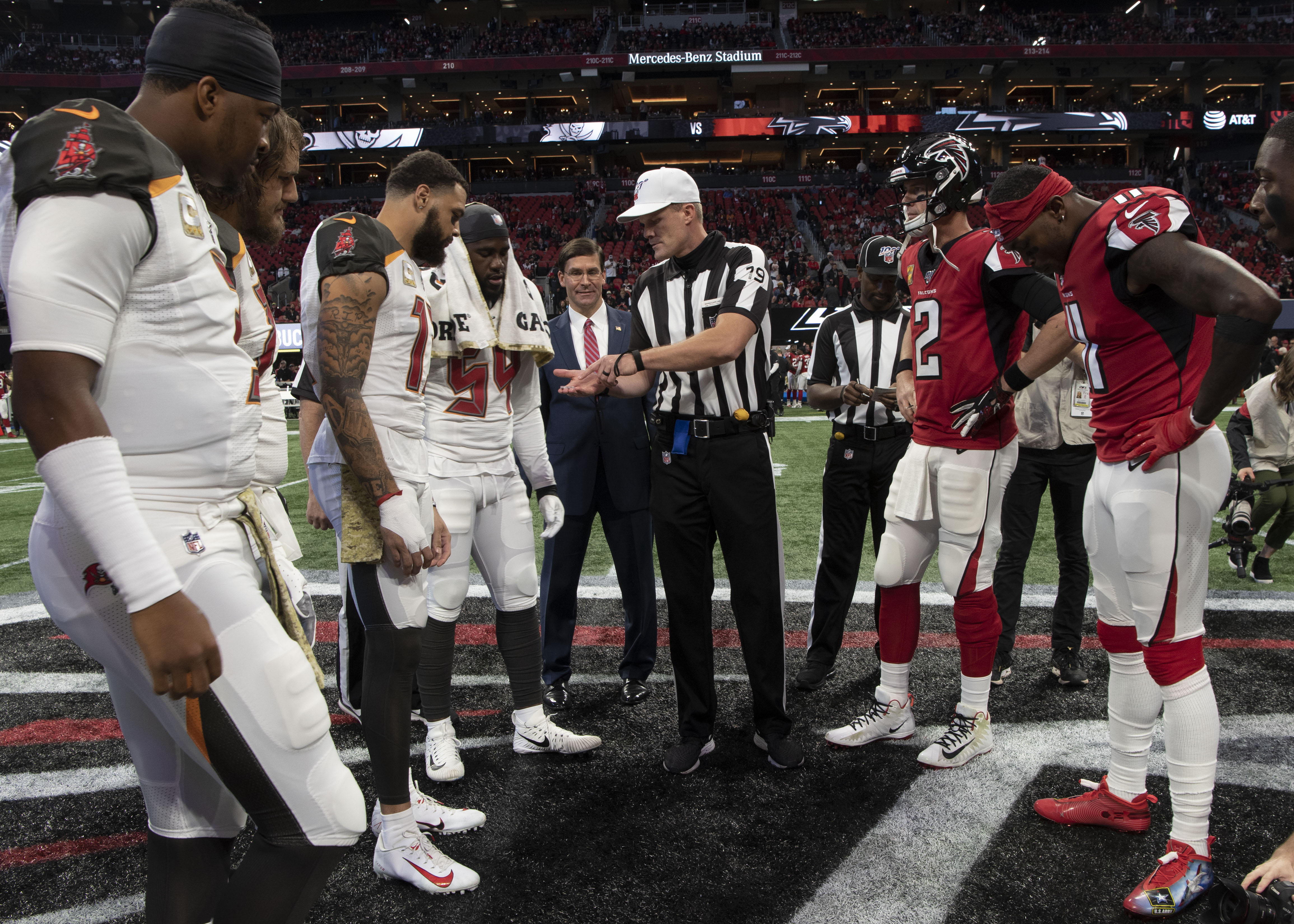 Defense Secretary Mark T. Esper attends the coin toss as an honorary captain, at the NFL’s Atlanta Falcons vs. Tampa Bay Buccaneers Salute to Service game, Atlanta, Georgia, Nov. 24, 2019.